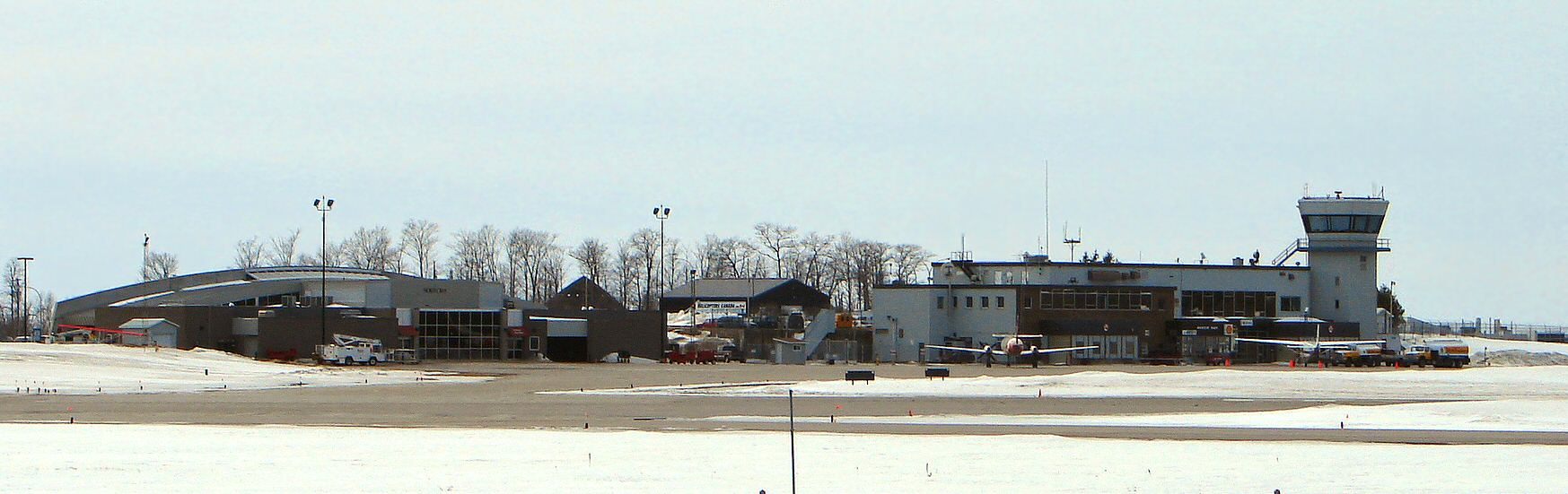 Jack Garland Airport, North Bay, Ontario, Canada